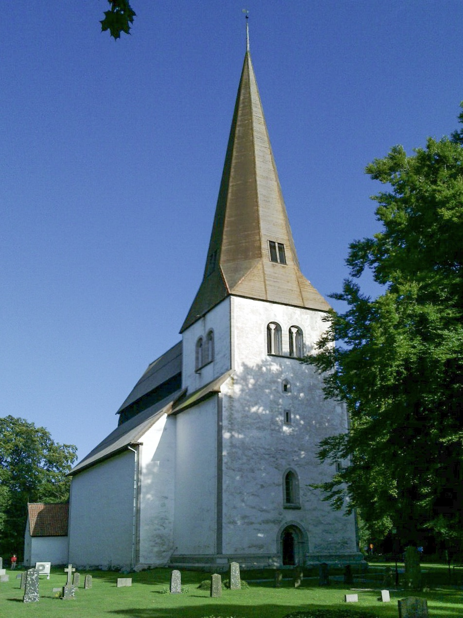 Church of När,Gotland, SE